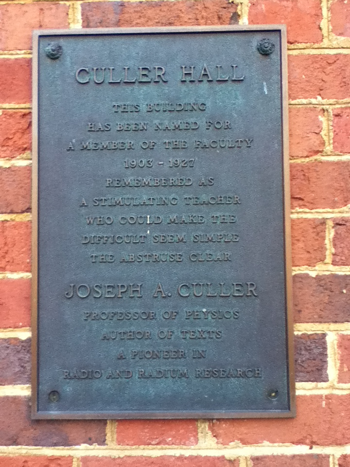 Plaque in front of Culler Hall (Miami University) dedicating the building to Joseph A. Culler.